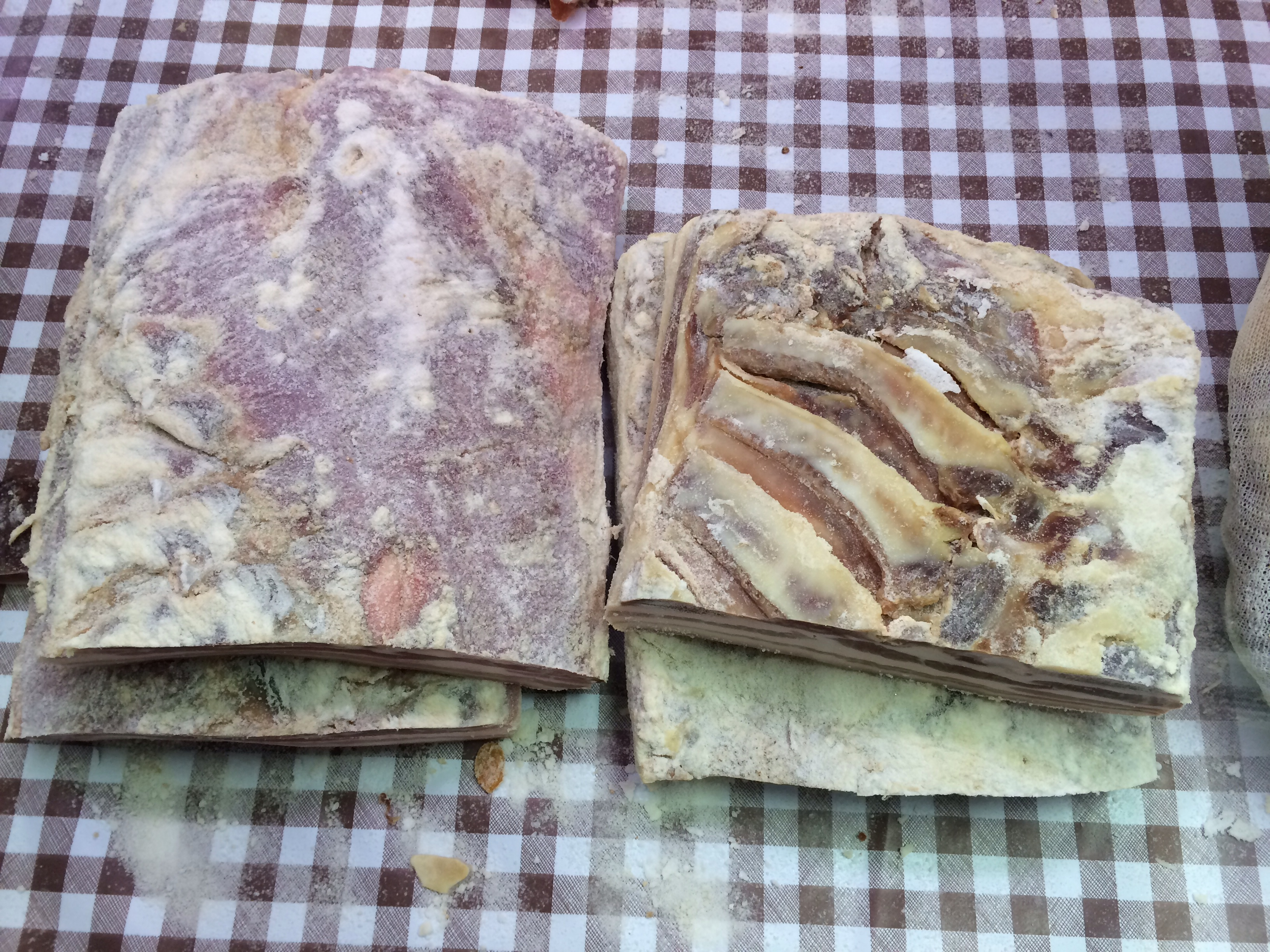 Carmarthen Ham on sale in Carmarthen Market, Carmarthen, Carmarthenshire, Wales